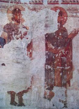 Fresco portrait of King Bagrat IV of Georgia (on the right), from the Ateni Sioni church